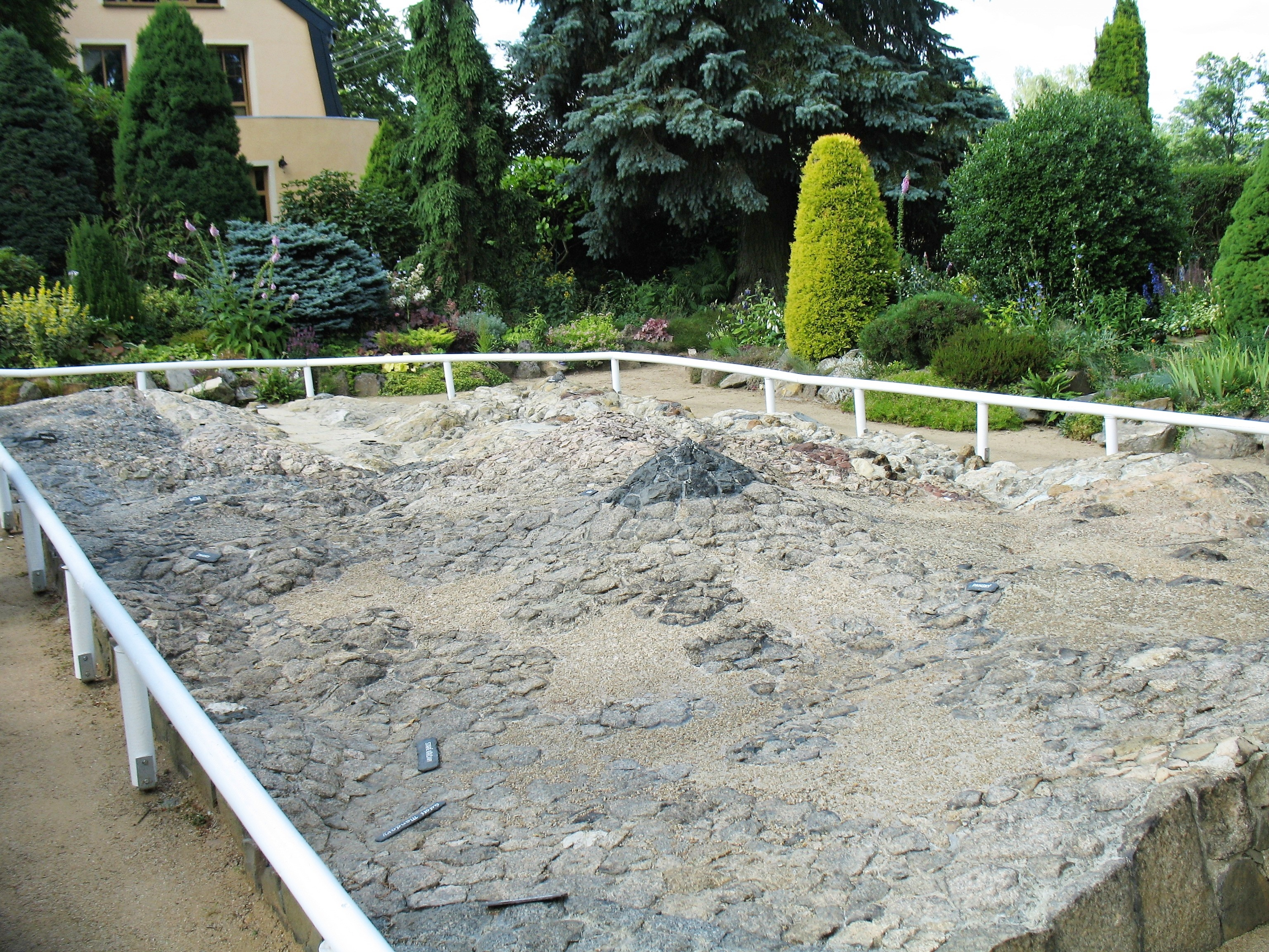 Rudolf Kögler´s geological map in Zahrady. Cultural monument in Děčín District, Czech Republic